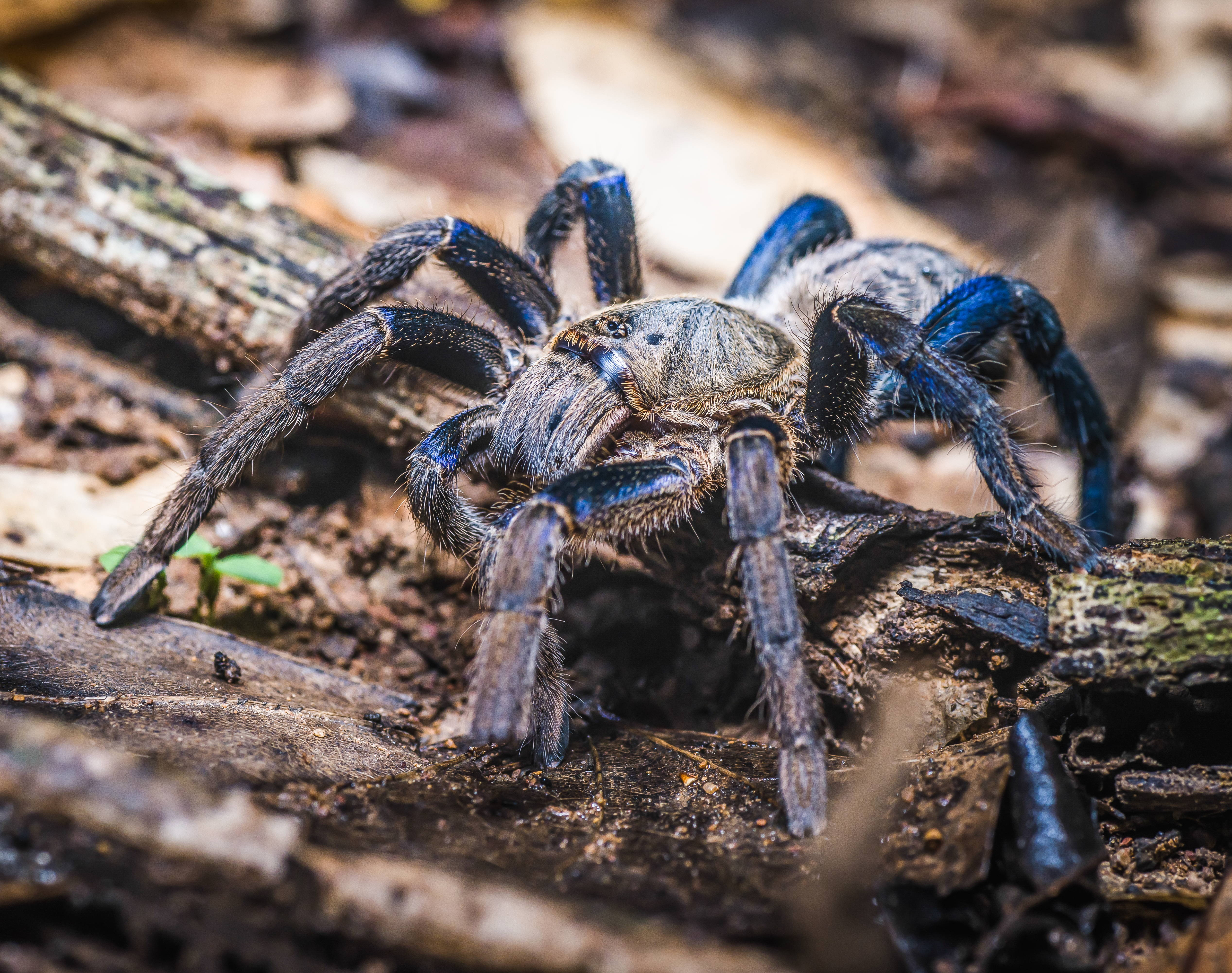 Haplopelma lividum, Cobalt blue tarantula - Kaeng Krachan District, Phetchaburi, Thailand